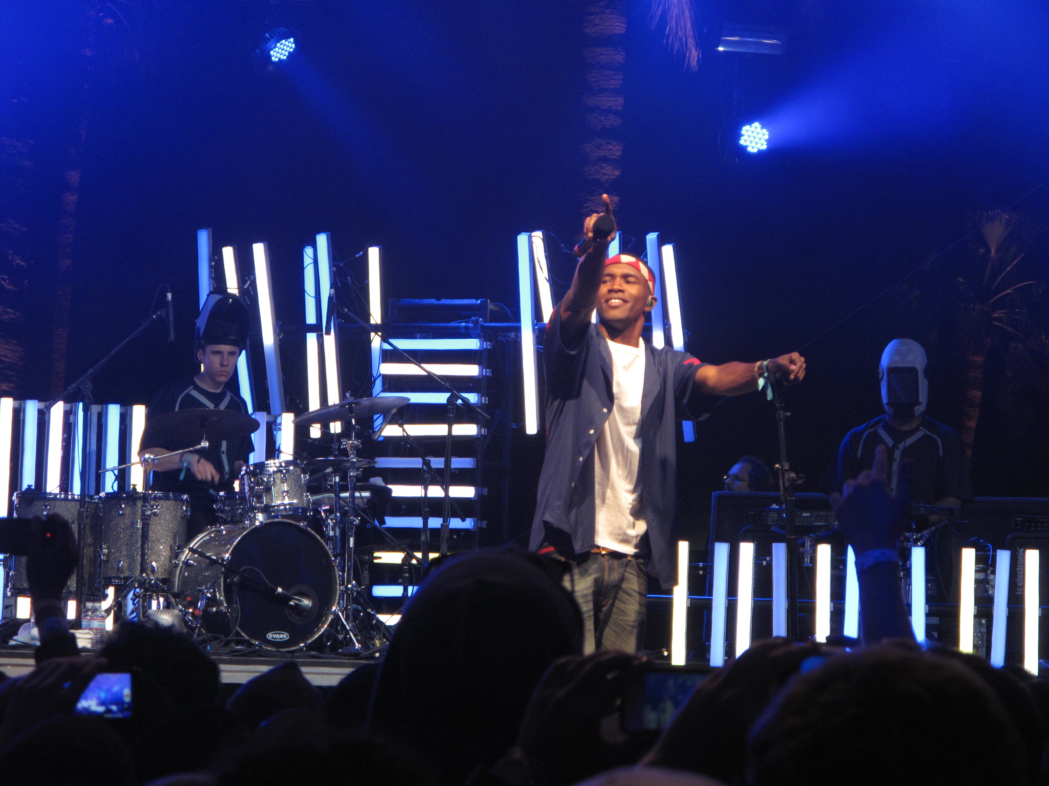 Frank Ocean holds out his microphone to the crowd while performing at Coachella 2012.